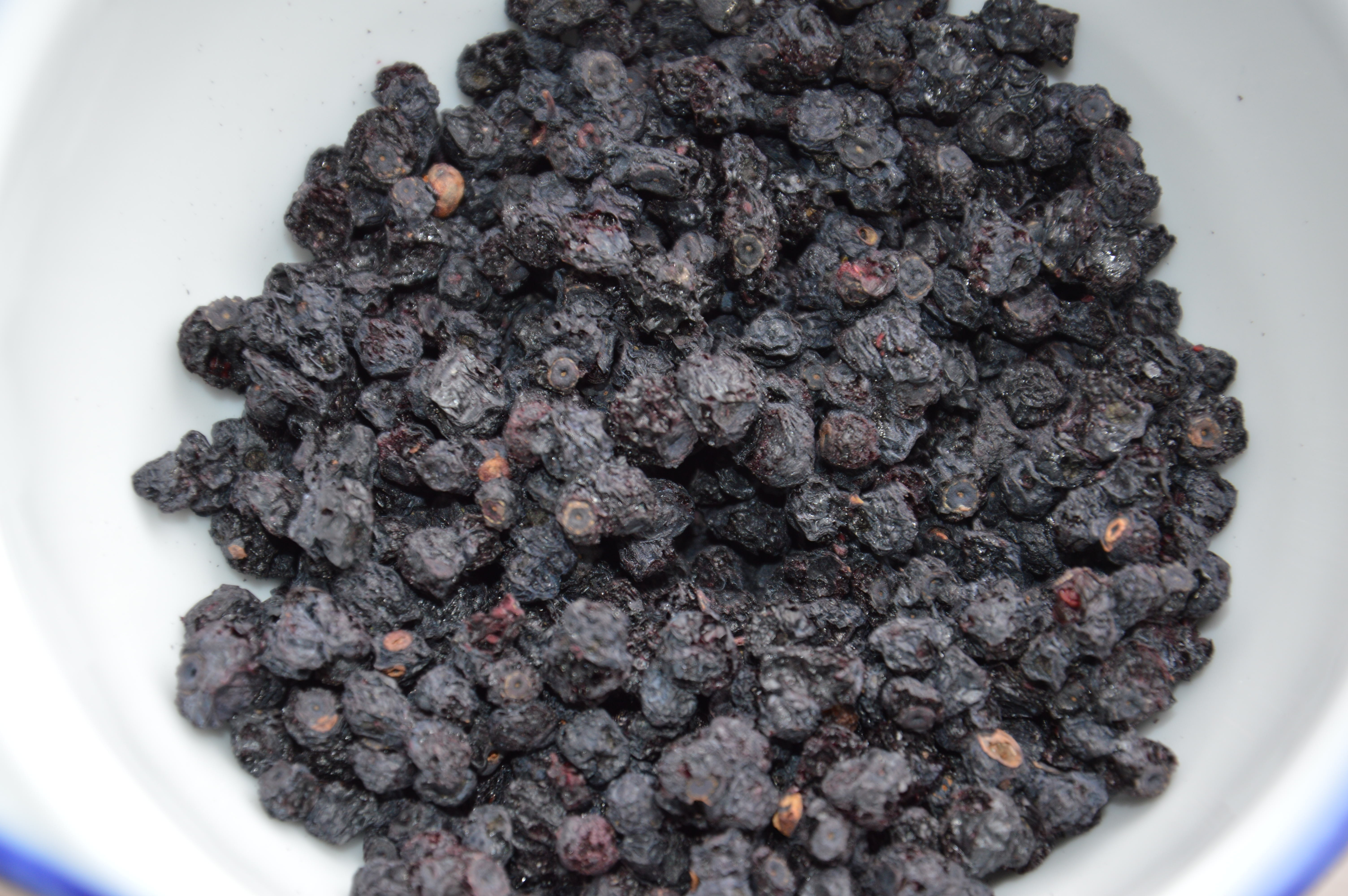 A bowl of dried Vaccinium myrtillus (Common Bilberry)